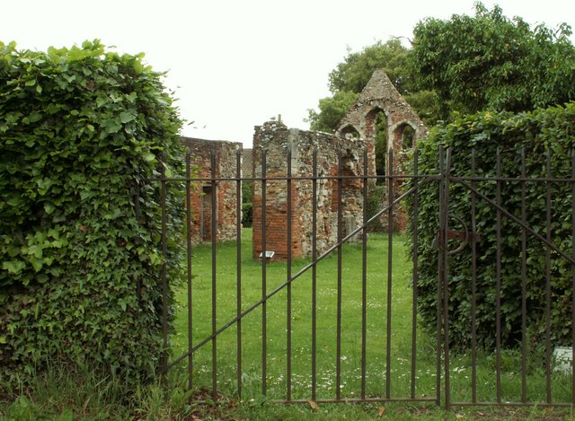 The ruins of St. Giles Leper Hospital It is said that the hospital was founded by Henry II. All that survives is part of the transepts and chancel of a chapel that date from the end of the 12th century. Although the gates were padlocked, it is open to the public at certain times of the year. This is the view from Spital Road.